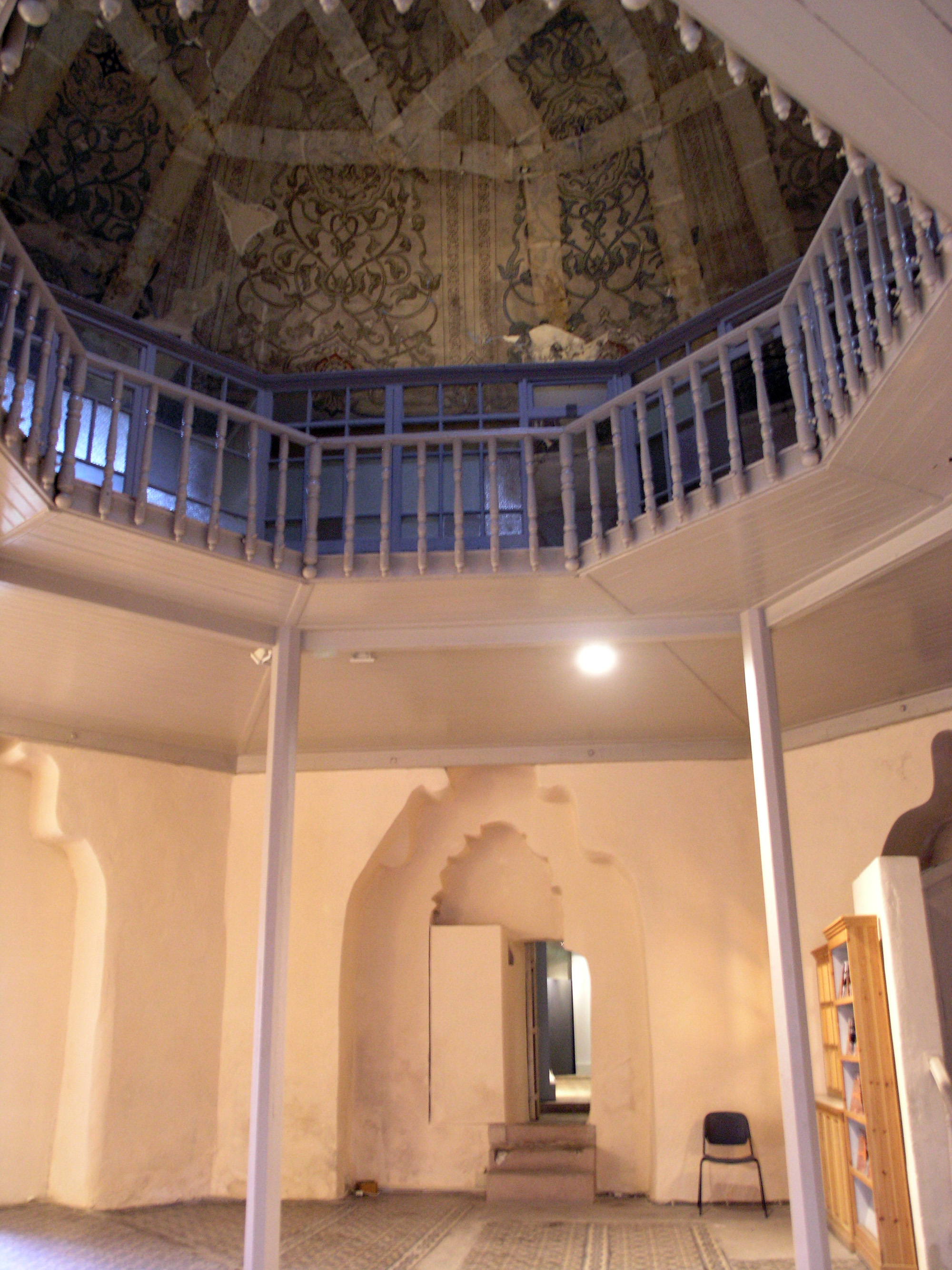 Cool chamber of the men baths in the Bey Hamam in Thessaloniki. Photograph taken by Marsyas 17:21, 26 February 2006 (UTC)